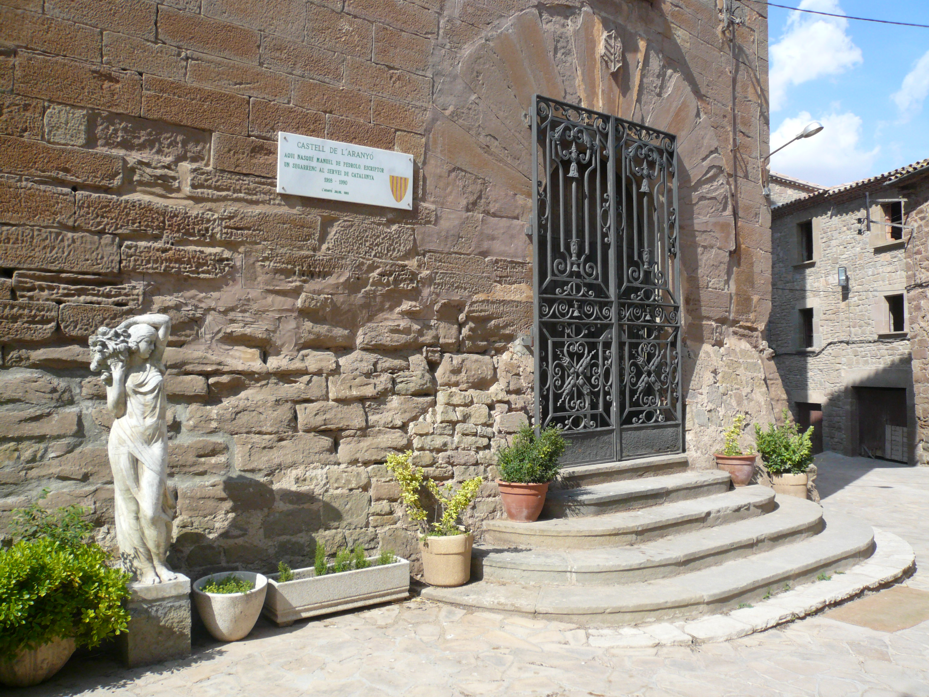 Photo of L'Aranyó's Castle, birthplace of the Catalan writer Manuel de Pedrolo.The sign reads: “The writer Manuel de Pedrolo, a Segarra native in the service of Catalonia, was born here.”